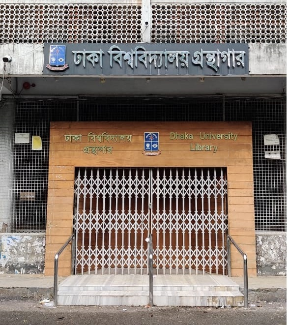 This is the main entrance/gate of Dhaka University Library